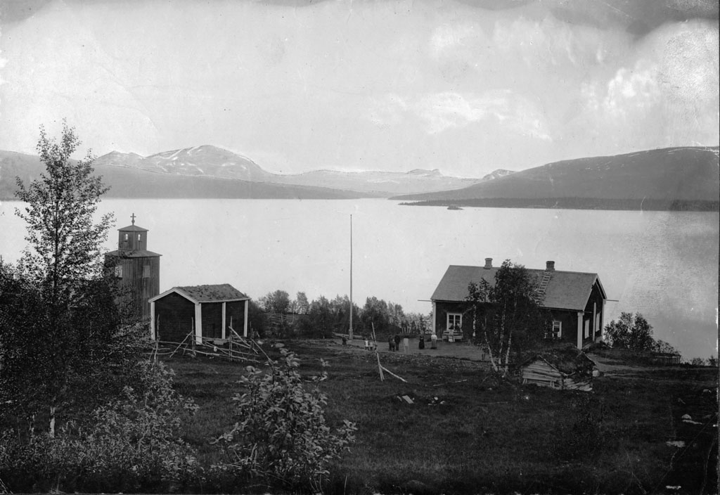 Tärna older church to the left in the picture. No longer existing. To the right is the rectory.